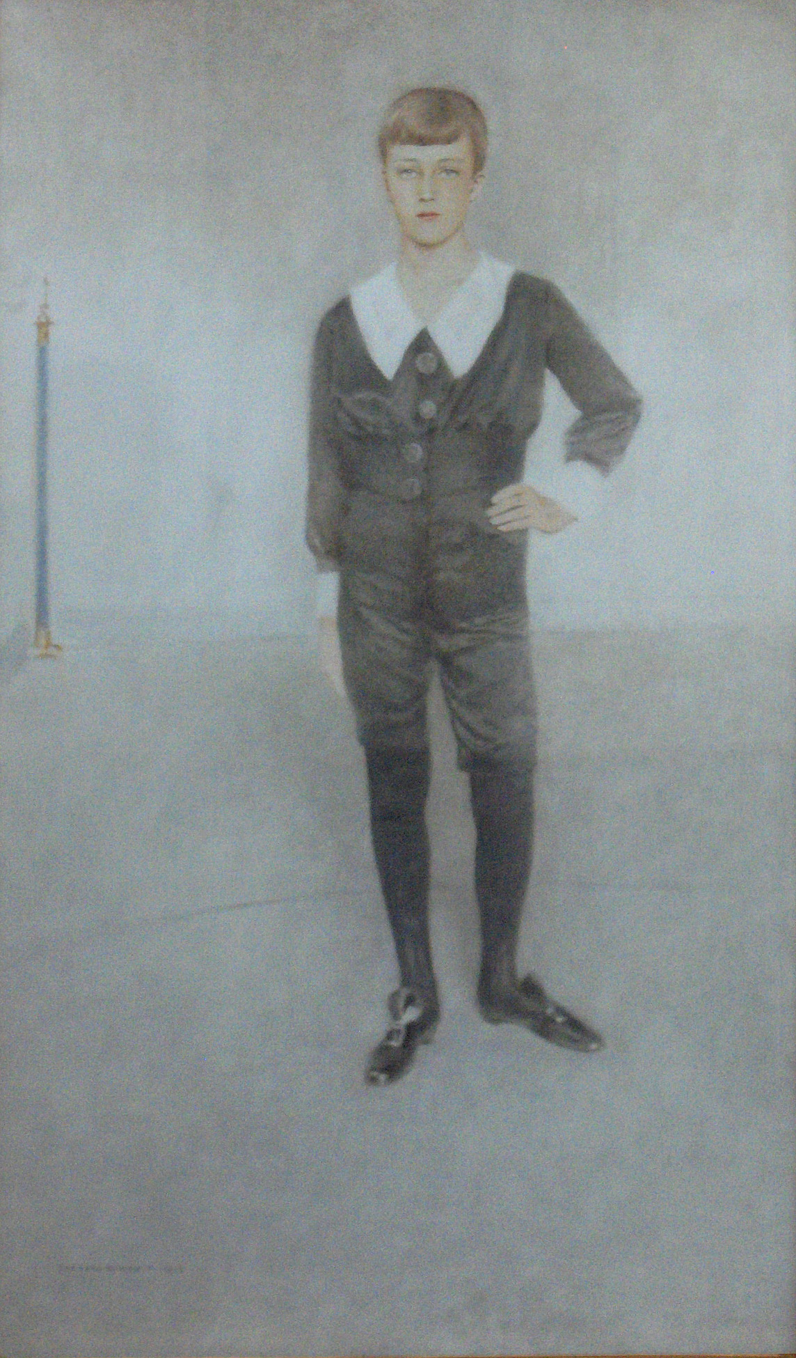 "Portrait of Prince Leopold of Belgium, Duke of Brabant" (1912), painting by Fernand Khnopff (1858-1921), Royal Museum of Fine Arts, Brussels, Belgium